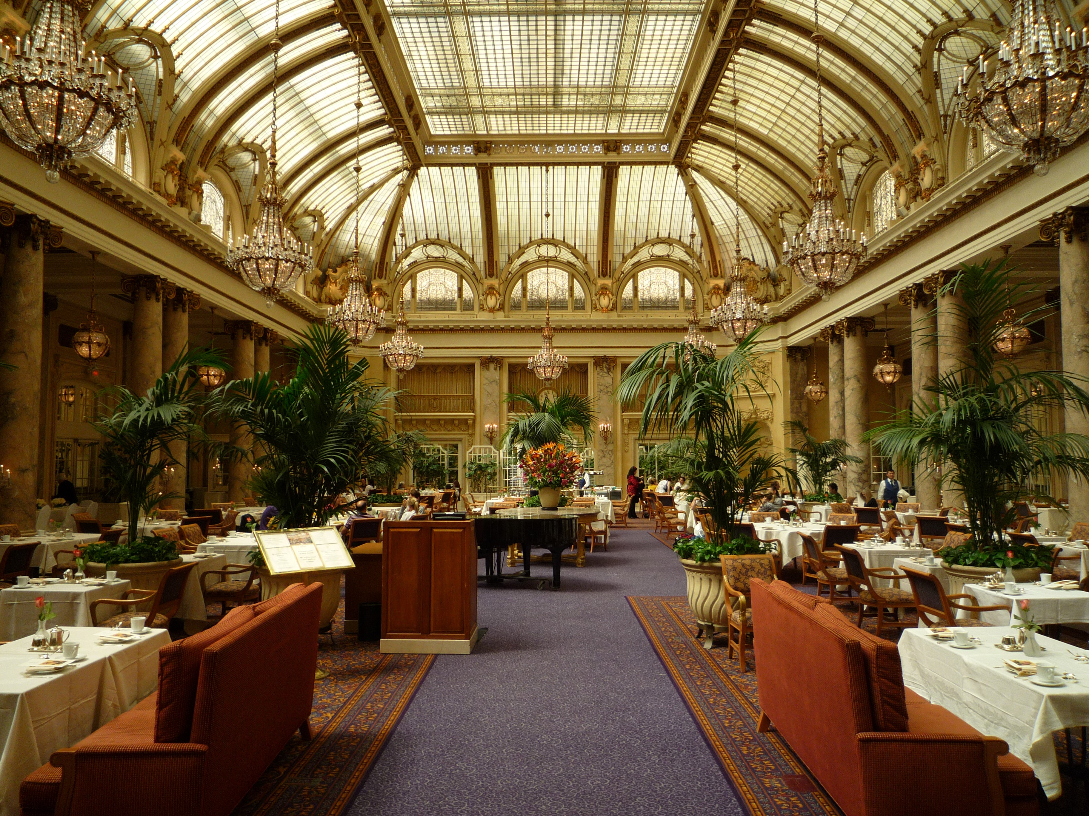 The Garden Court at the Palace Hotel, San Francisco, California